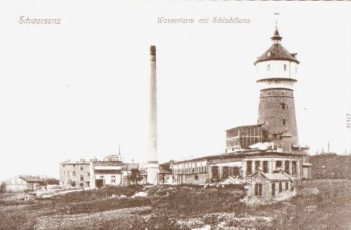 Water tower and slaughterhouse in Swarzędz, Poland. Published by E. Stiller in Swarzędz, printed by Reinicke&Rubin in Magdeburg.